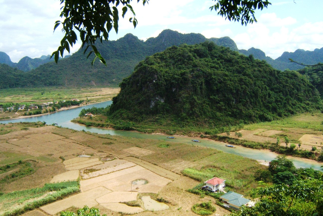 Son river in Quang Binh province, Vietnam.